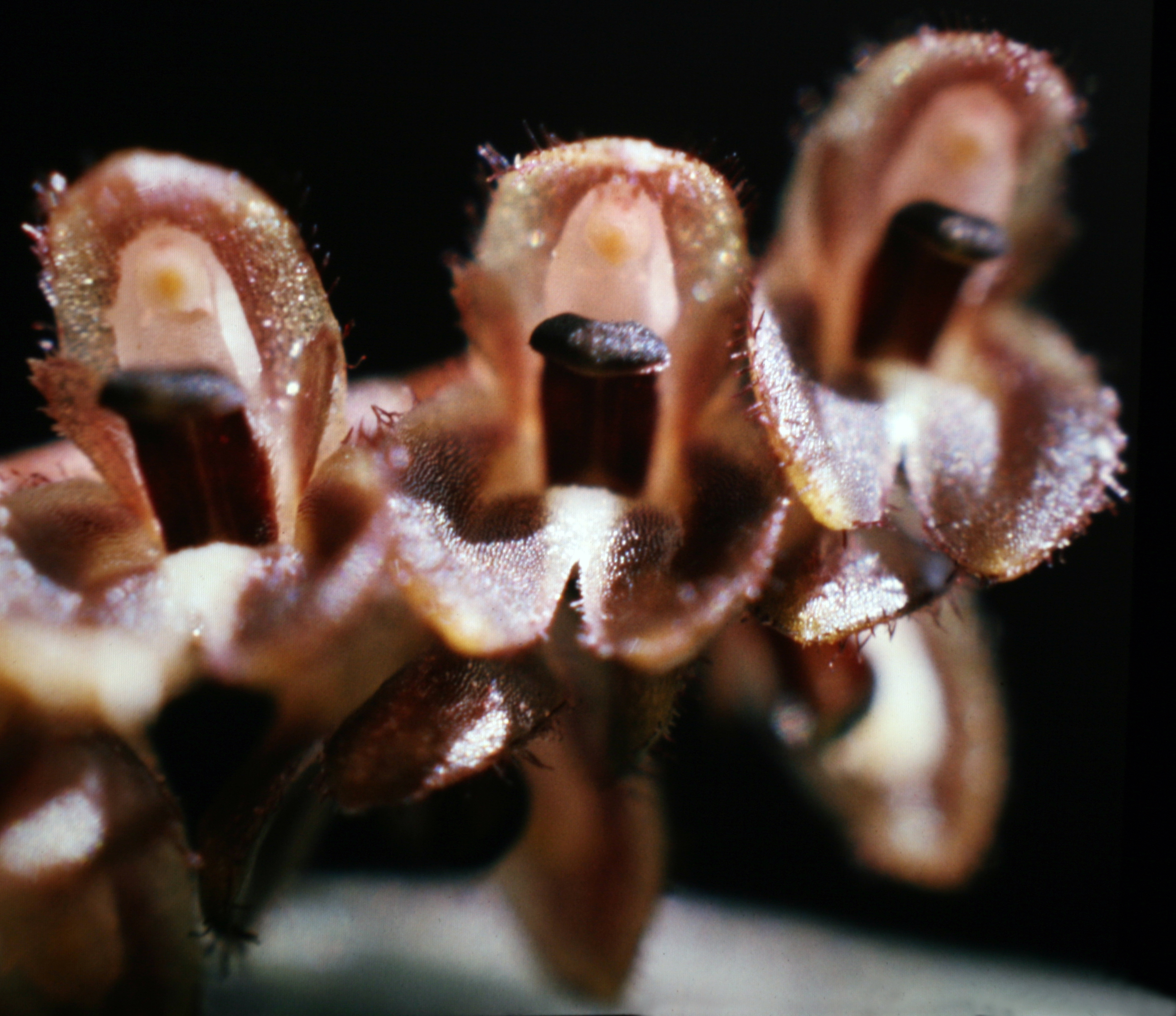 Pleurothallis ciliaris. Suriname.